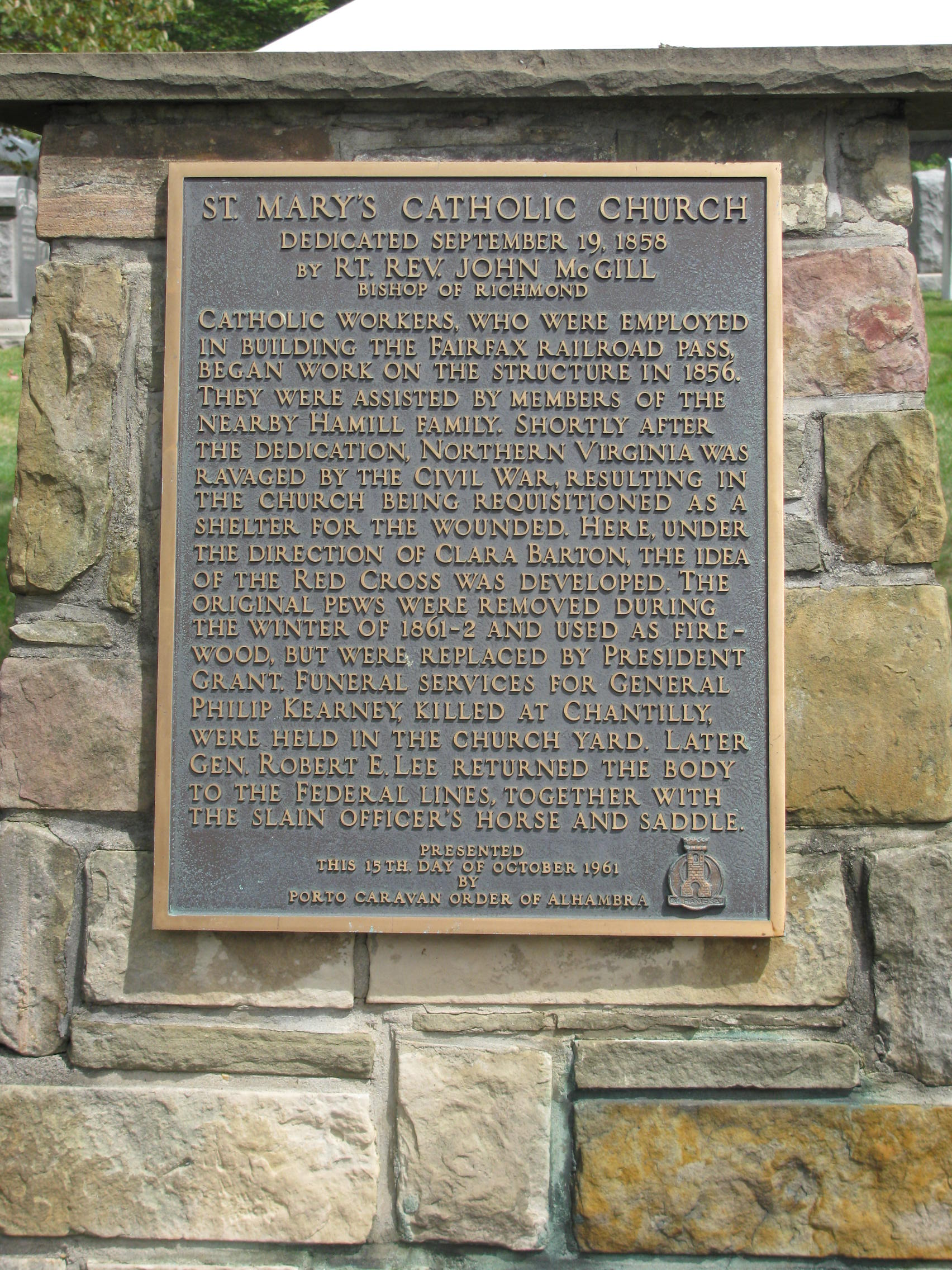 St. Mary's Church